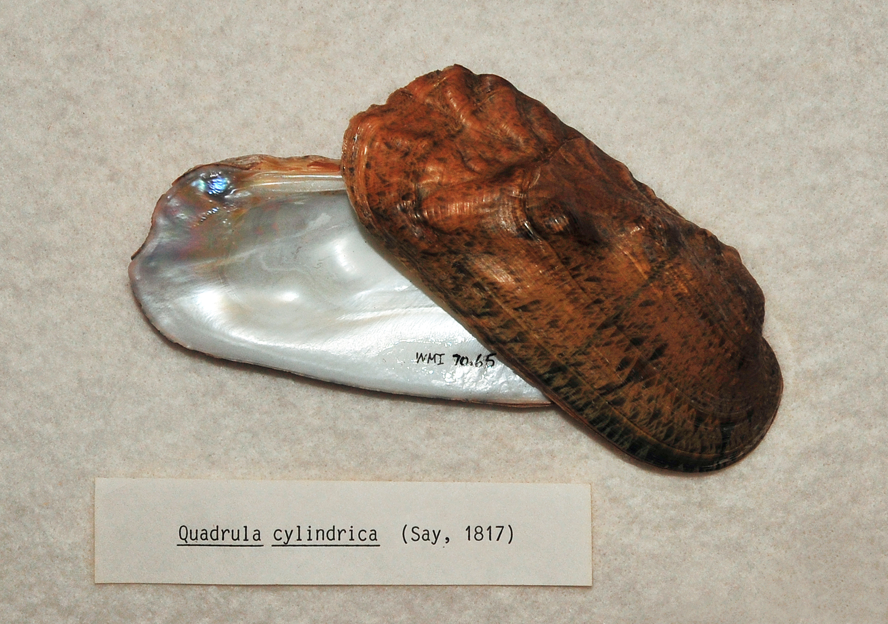 The Rabbitsfoot, scientific name Quadrula cylindrica (Say, 1817), is a species of freshwater mussel. It is an aquatic bivalve mollusk, in the family Unionidae, the river mussels. Cebuano: Quadrula cylindrica